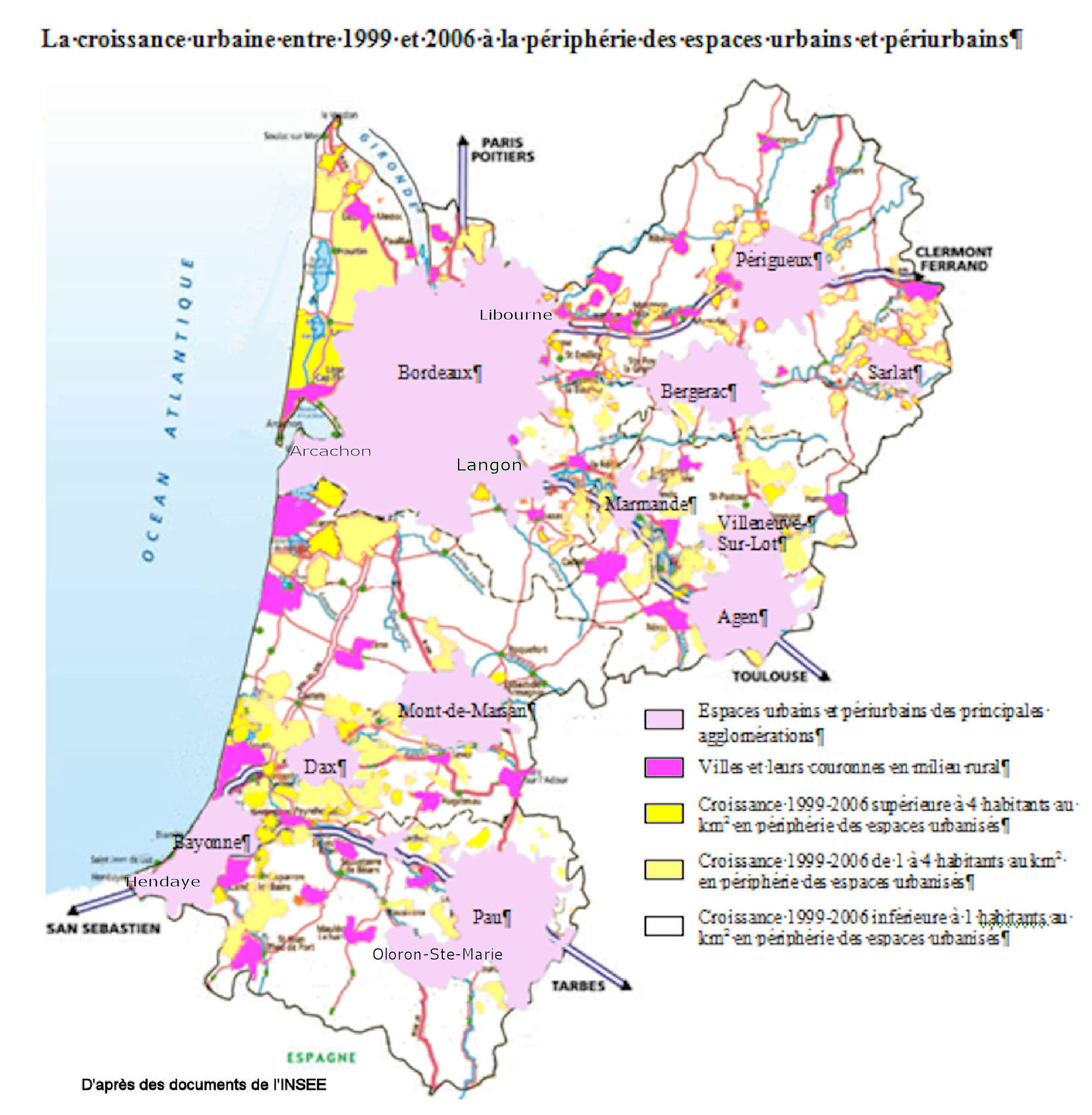 Urban growth at the periphery of urban and suburban areas between 1999 and 2006